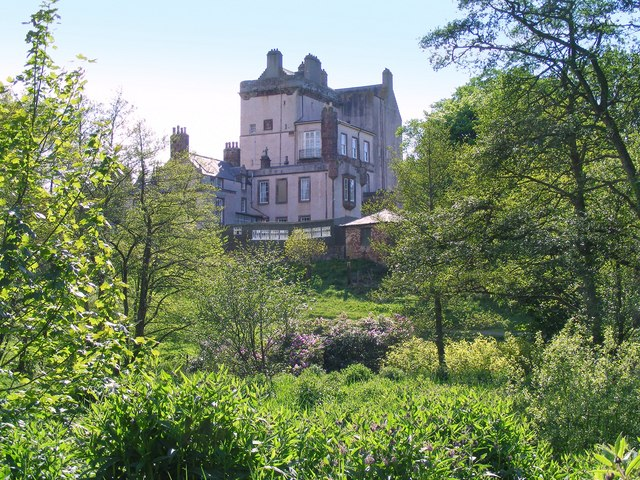 Delgatie Castle This Castle dates from 1050, Mary Queen of Scots stayed here after the battle of Corrichie in 1562.